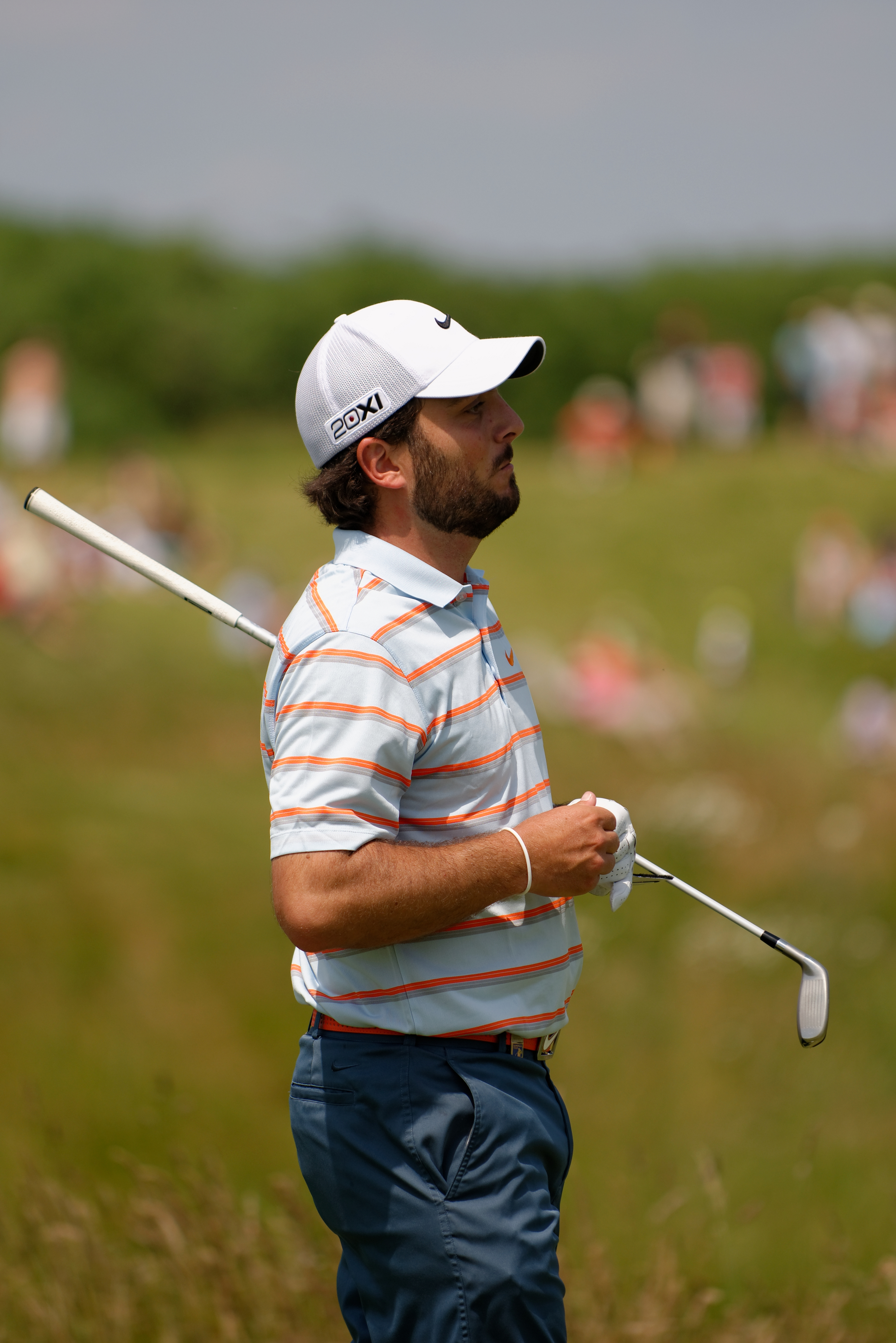 Italy's Francesco Molinari walks to the fairway after hitting his tee shot on the 10th hole during the last round of the French Golf Open at the Golf National in Saint Quentin en Yvelines, Sunday July 7th 2013.